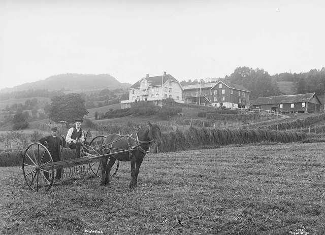 The residence Aulestad of Karoline and Bjørnstjerne Bjørnson